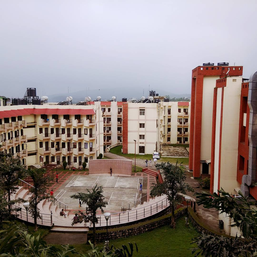 Boys hostel complex is seen from SARABHAI block.